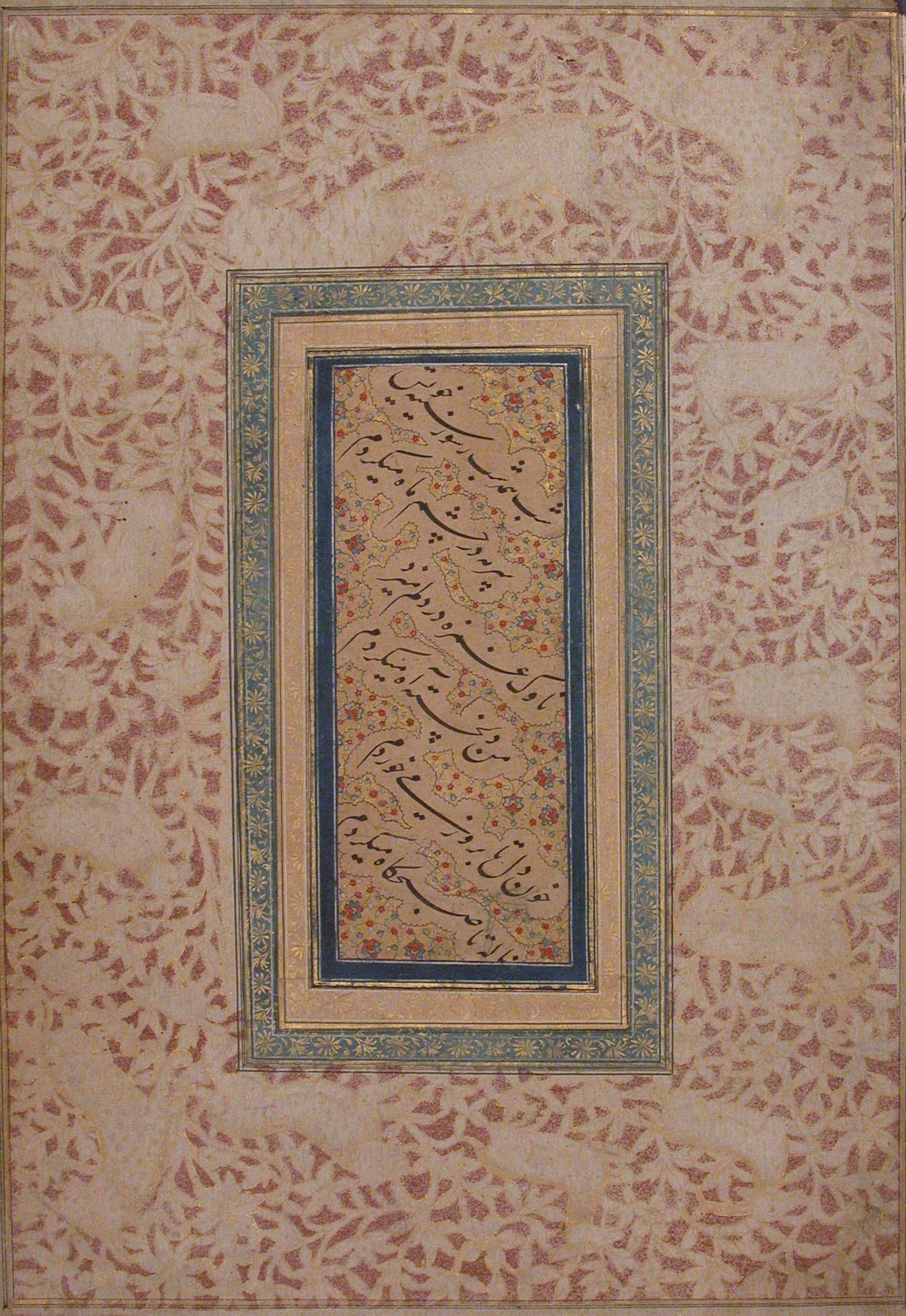 Non-illustrated album leaf; Codices